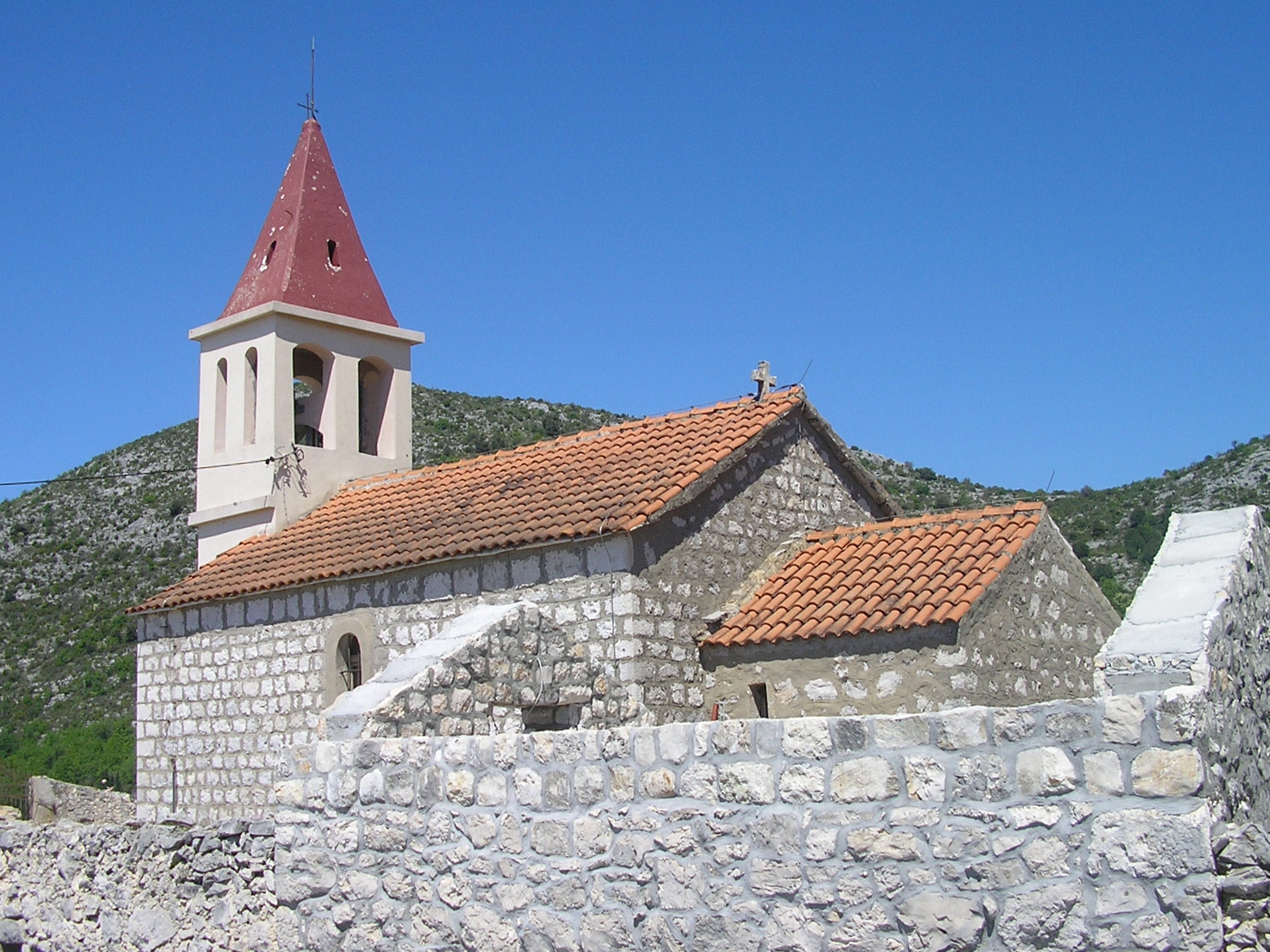 St. Anthony of Padua's church in Raba